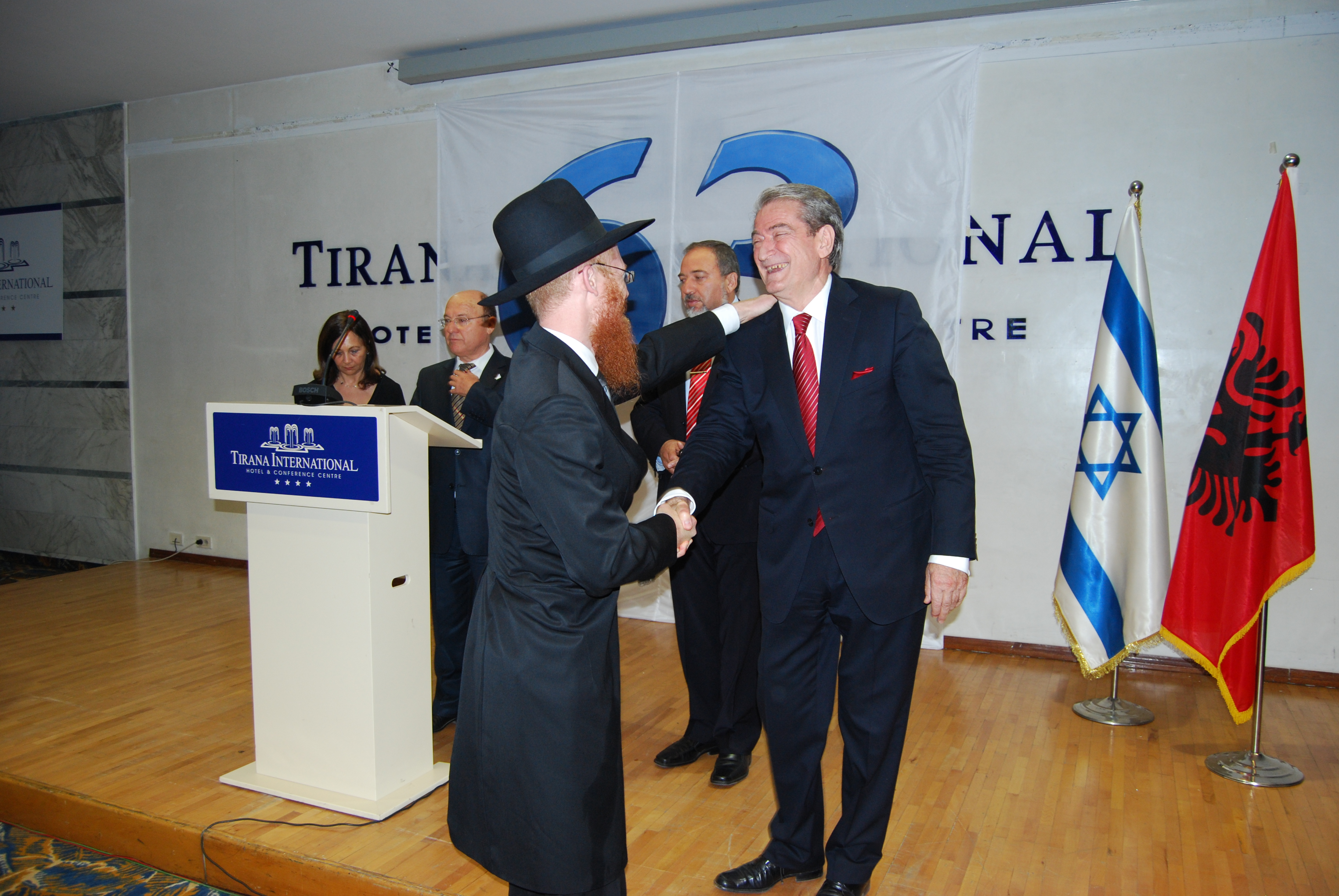 Prime Minister Sali Berisha with Rabbin Yoel Kaplan, Tirana